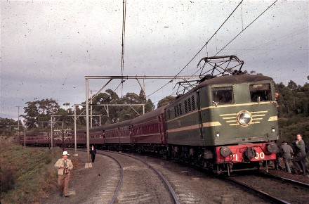 Prototype electric locomotive 4501 pauses near Berowra for a photo-stop on an ARHS tour.